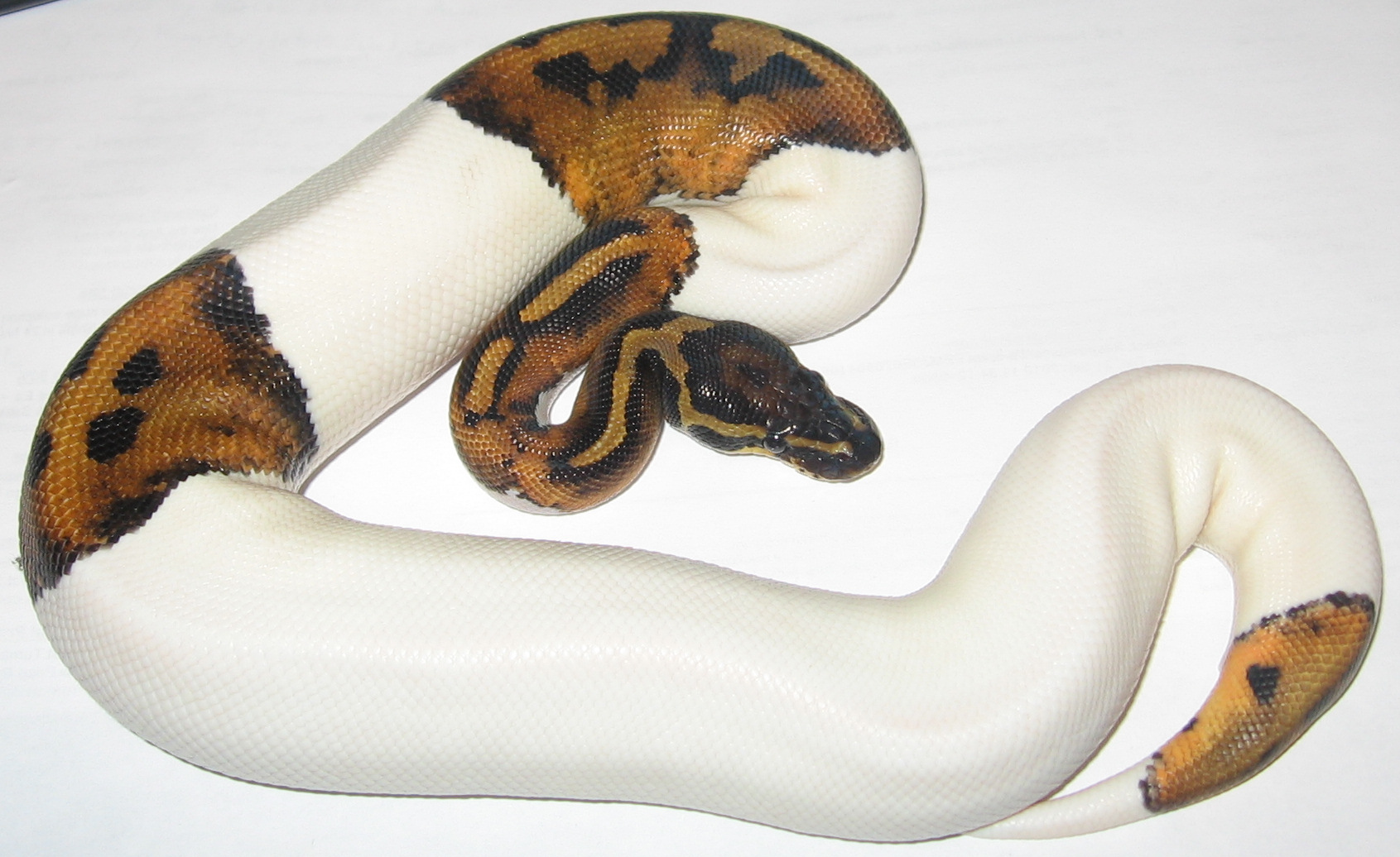 The piebald morph ball python is similar in appearance to other piebald animals. The gene creates pure white patches in random proportions, and disrupts the pattern on the colored areas of the animal. This is a recessive gene.